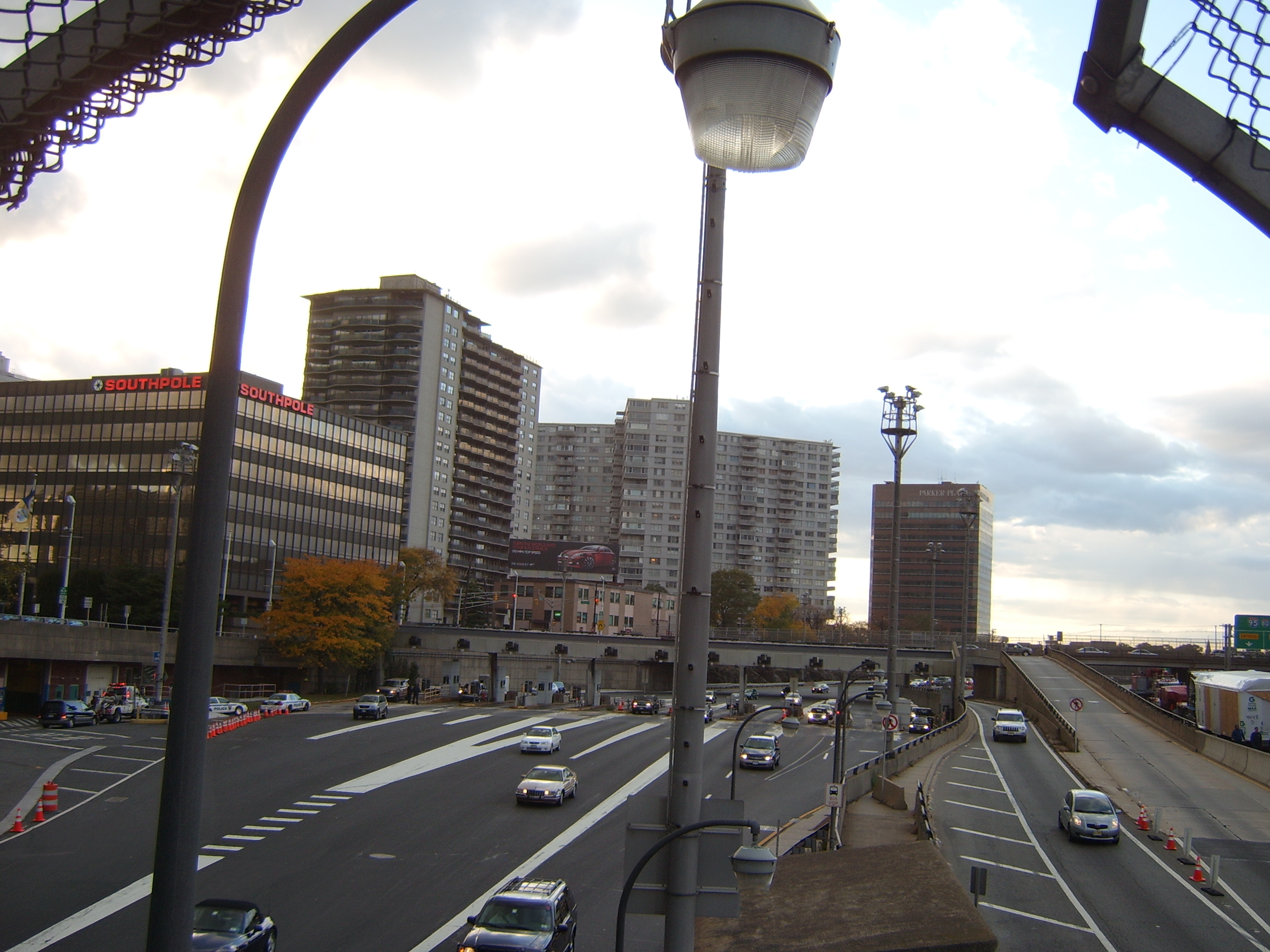 Fort Lee, New Jersey; looking west from Center Avenue overpass at toll station for the George Washington Bridge in Fort Lee